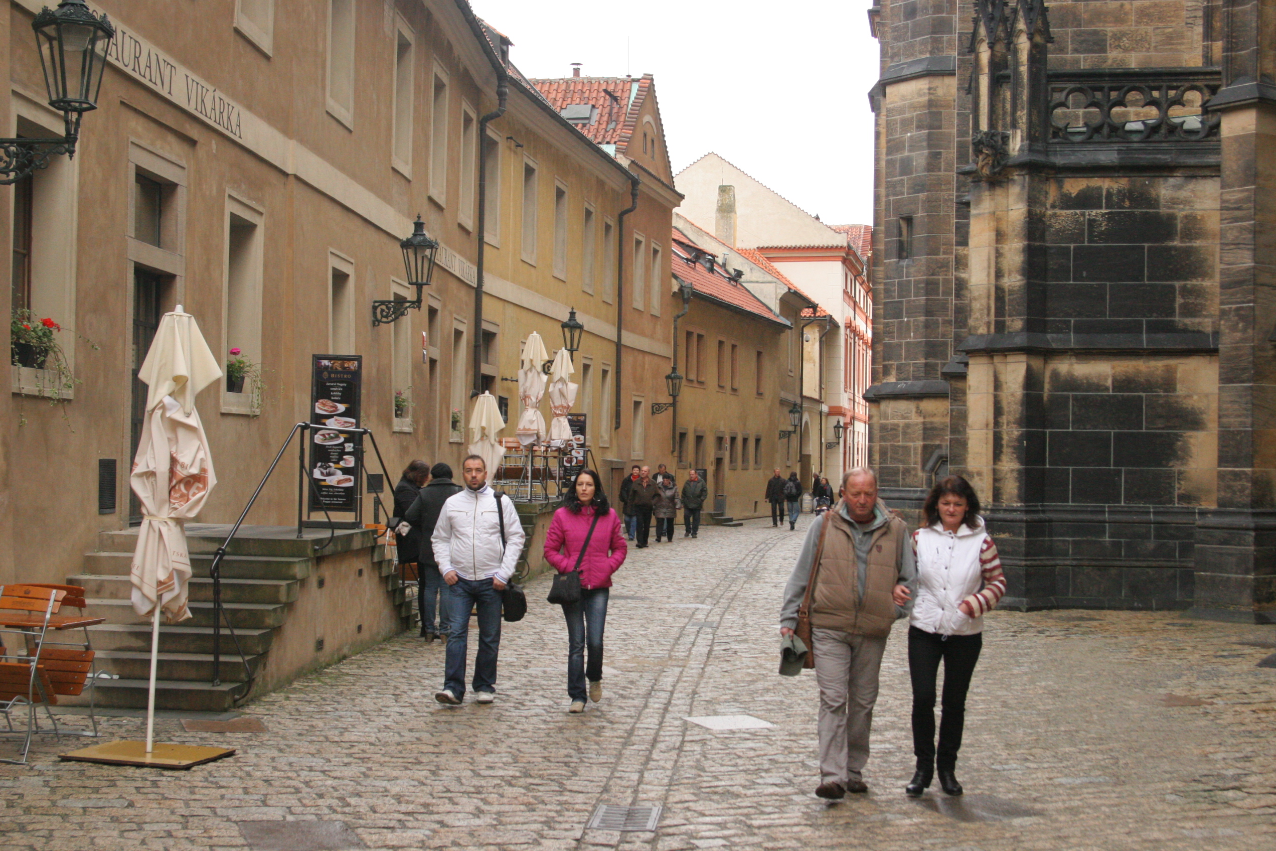 Prague, Czech republic November 2012